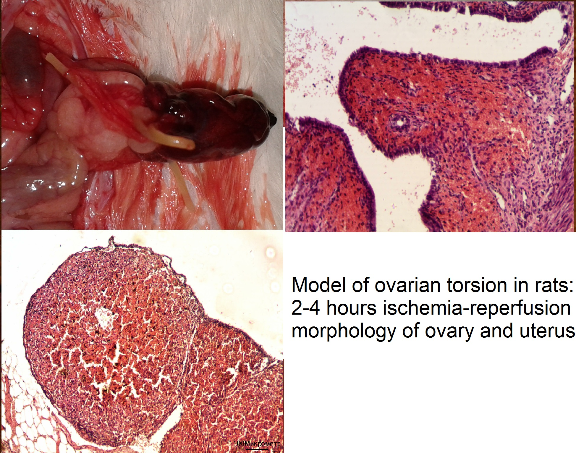 Model of ovarian torsion in rats whith morfology